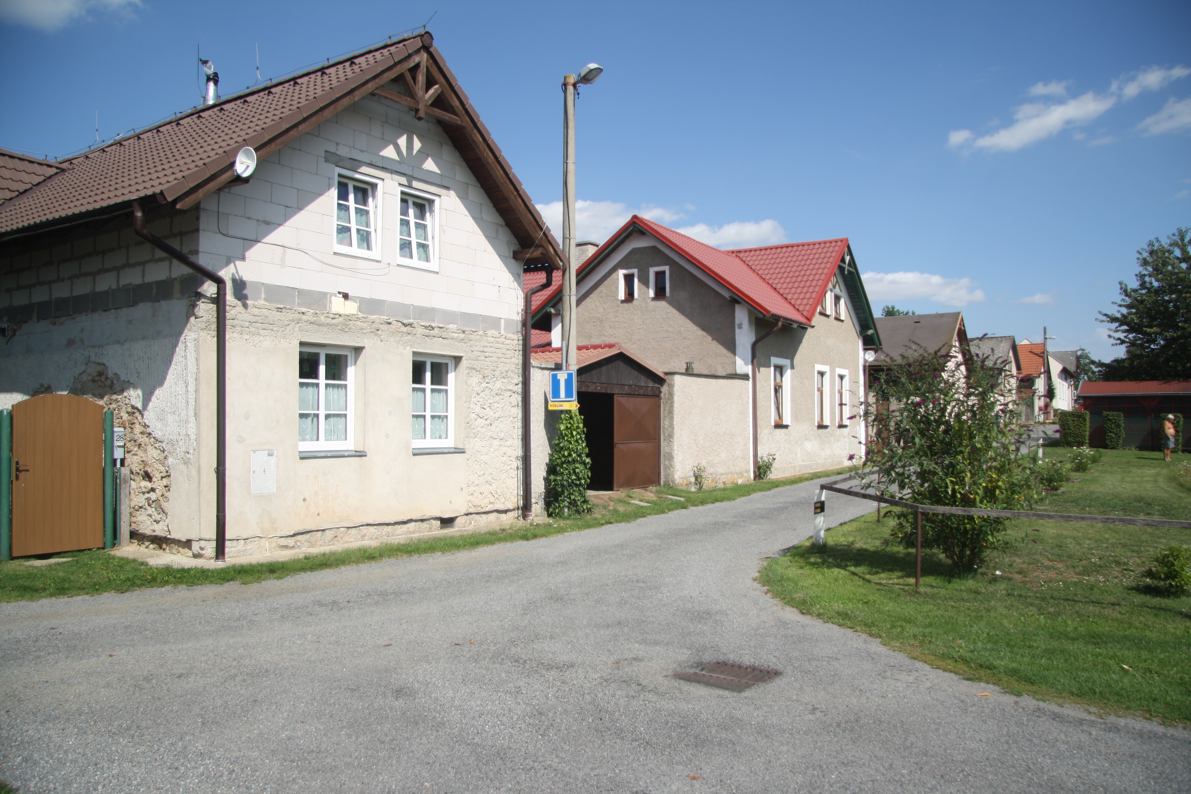 Houses in Skřivánek, Okrouhlička, Havlíčkův Brod District.